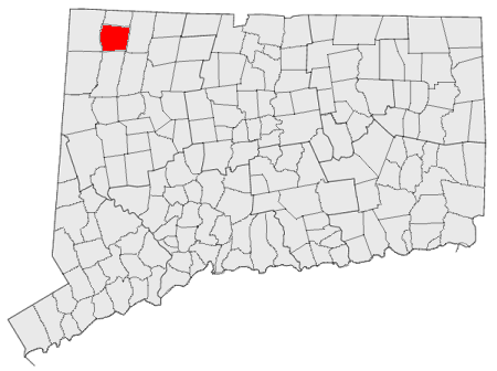 User:Plutor made this.